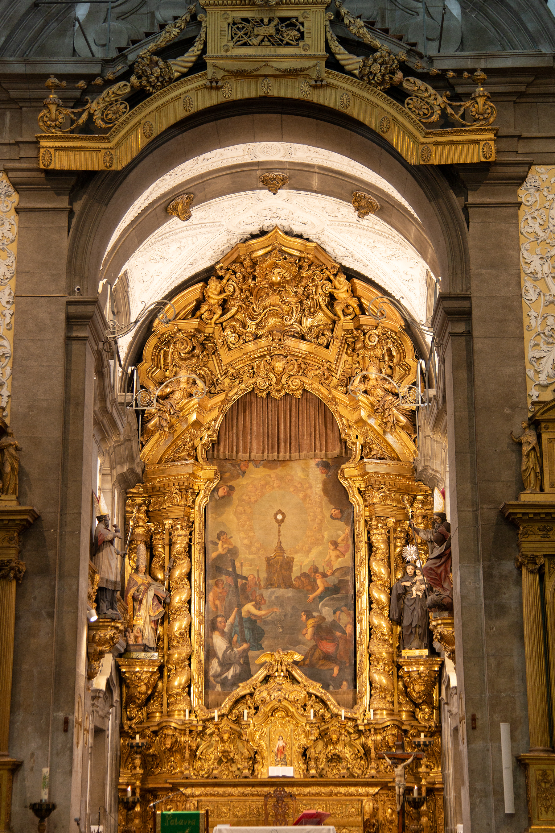 Altar area, Igreja Paroquial de San Nicolaum Porto, Portugal, 2019